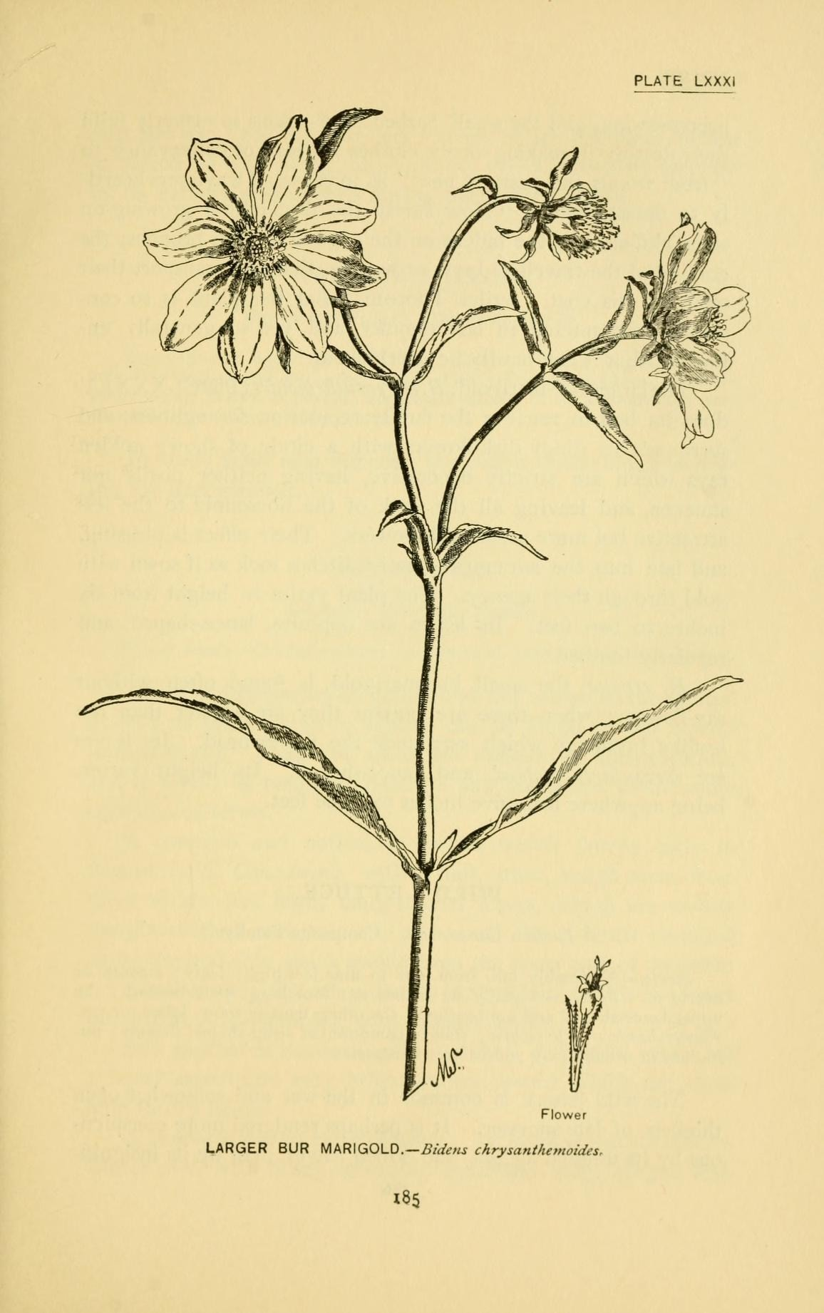 PLATE LXXXI Flower LARGER BUR MARIGOLD.— B/cfens chrysanthemoides. 185